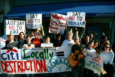 Demonstrators in front of the Delaware, OH office of Citibank at a demonstration against the Citibank's unfair investment policies in poor countries. Taken on November 16, 2001.